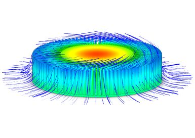 Representation of fluid flow in a radial heat sink, with rotating fluid flow trajectories